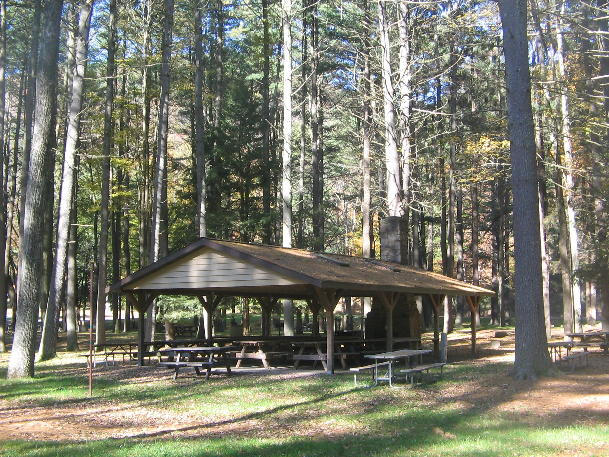 Hyner Run State Park Picnic Shelter No. 1 in Chapman Township, Clinton County, Pennsylvania, United States. The chimney is probably left from the CCC camp here.